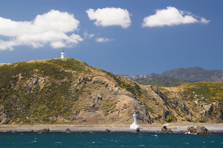 The Pencarrow Heads Lighthouse, the first permanent lighthouse build in New Zealand